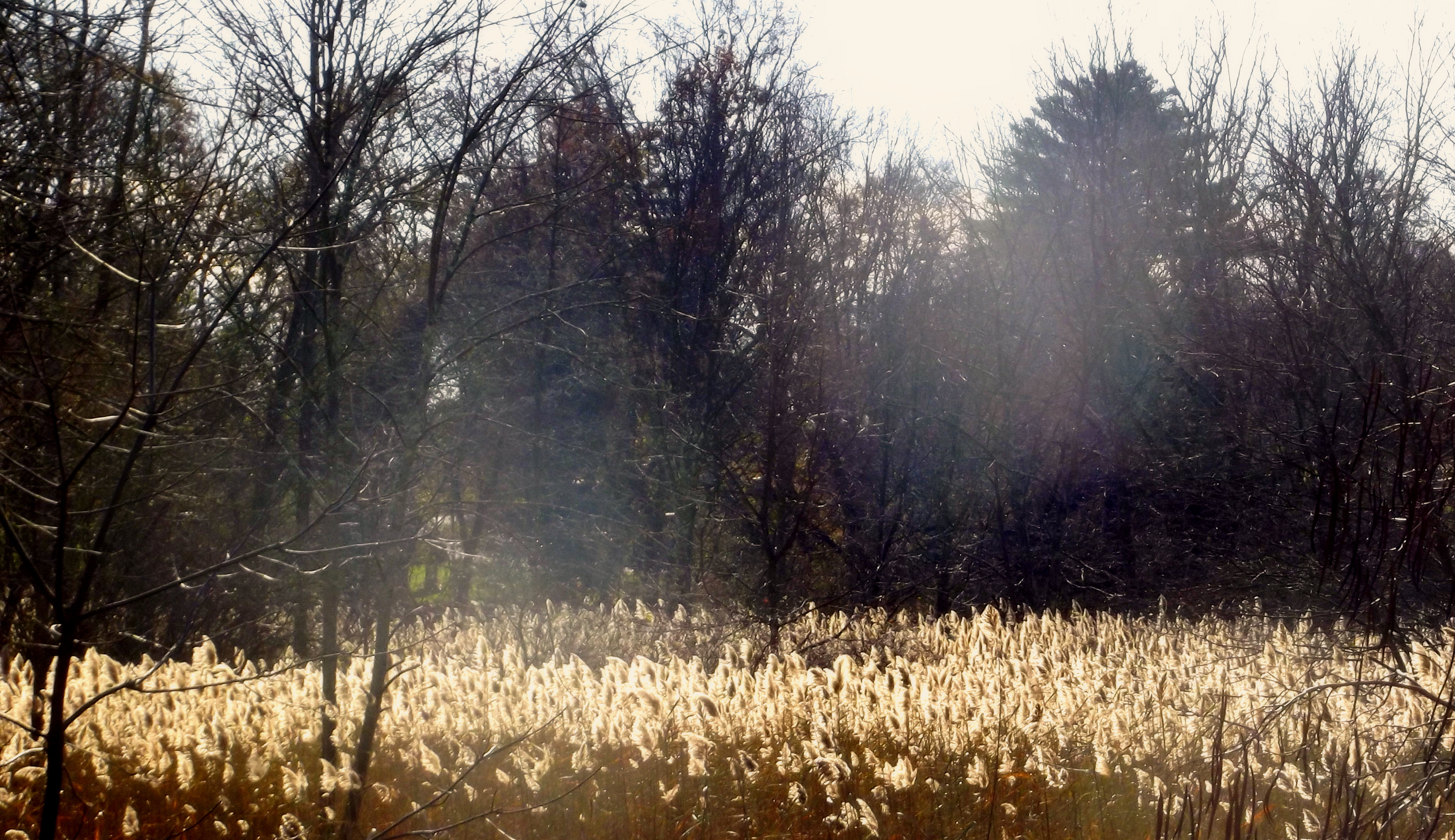 Phragmite glowing in the marshes along the "penninsula" trail in Mount Kisco, New York.